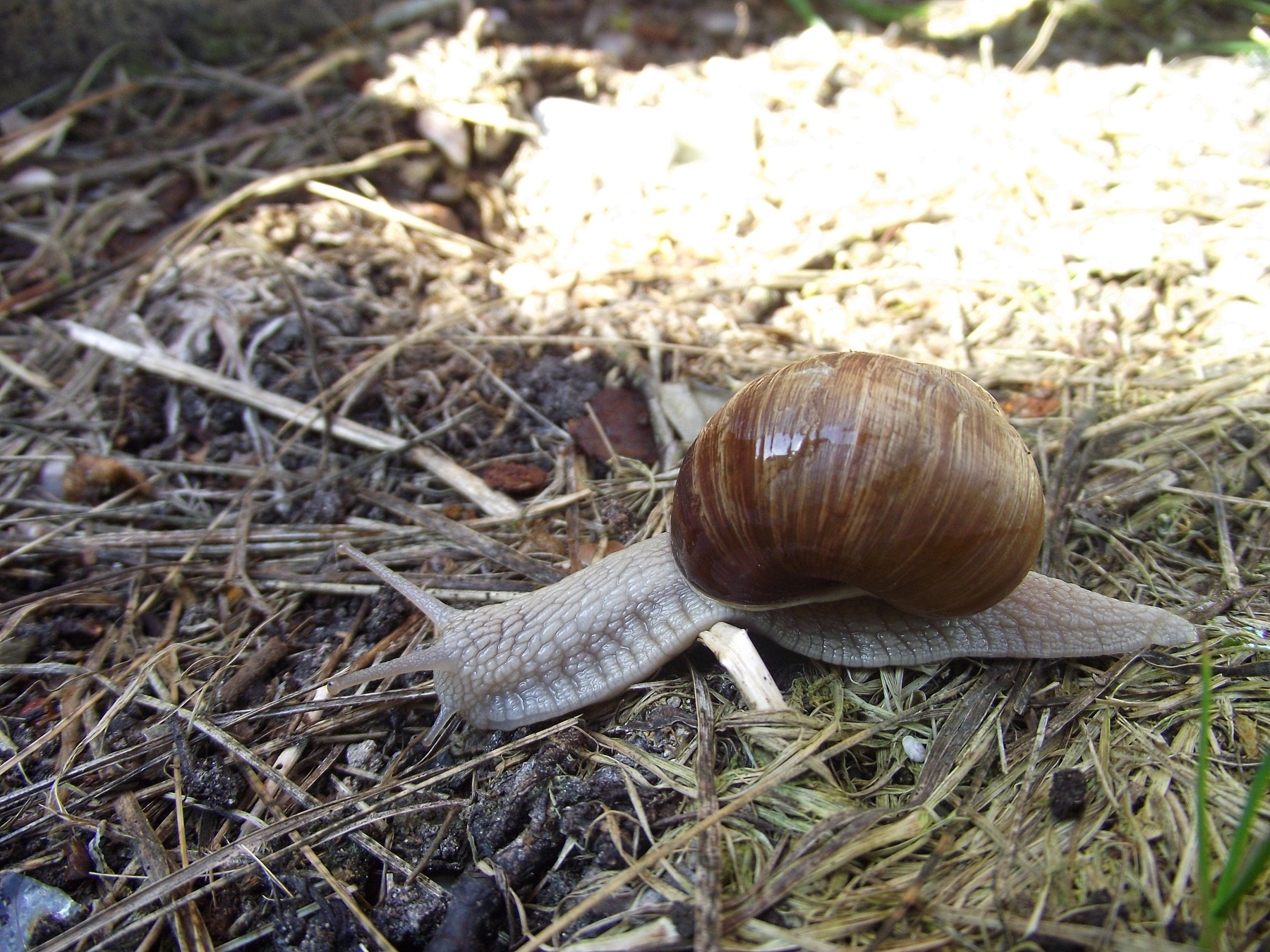 Edible snail (Helix pomatia) in Sääre village, Estonia.